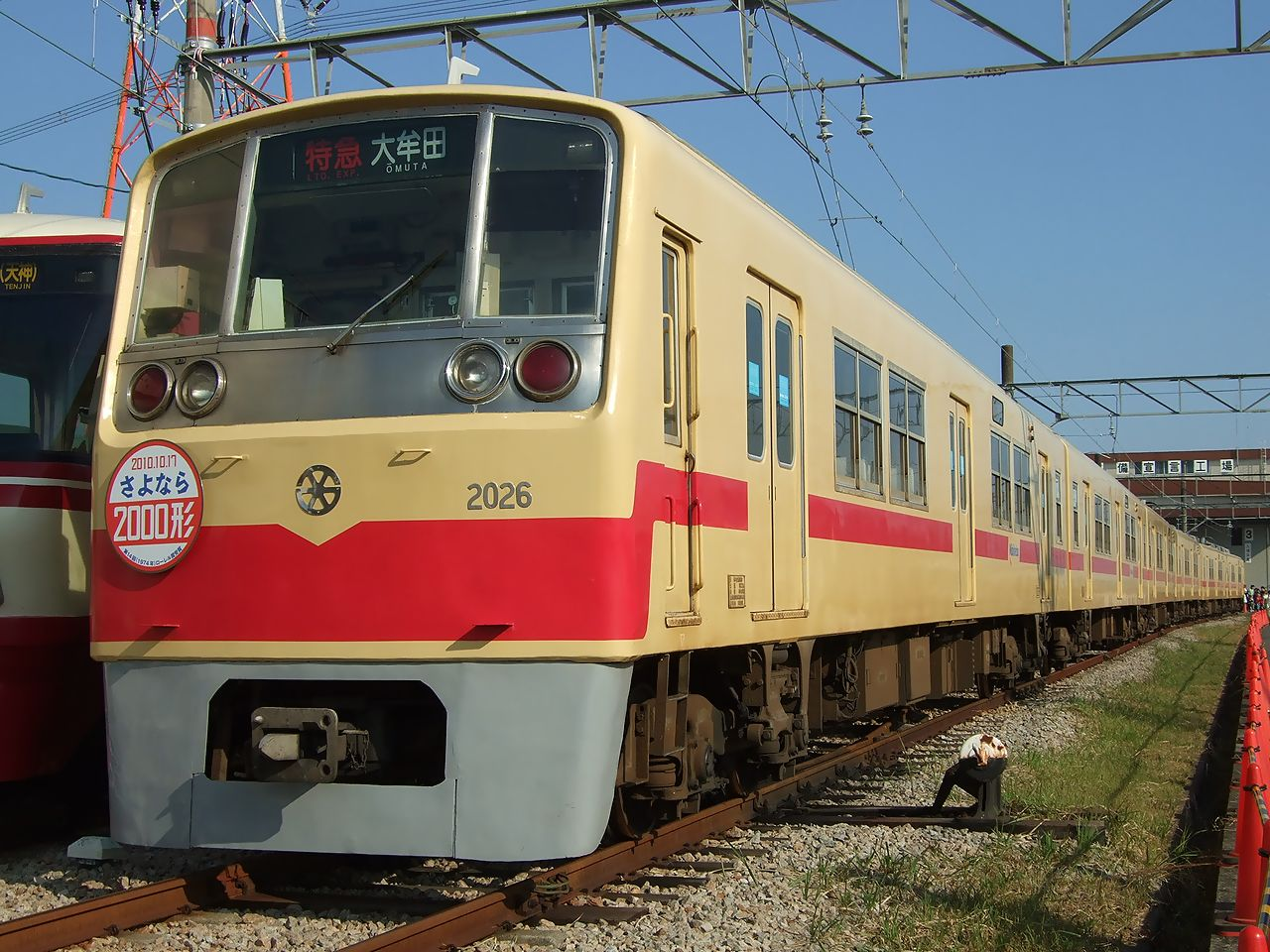 Nishi Nippon Railroad EMU Type2000.